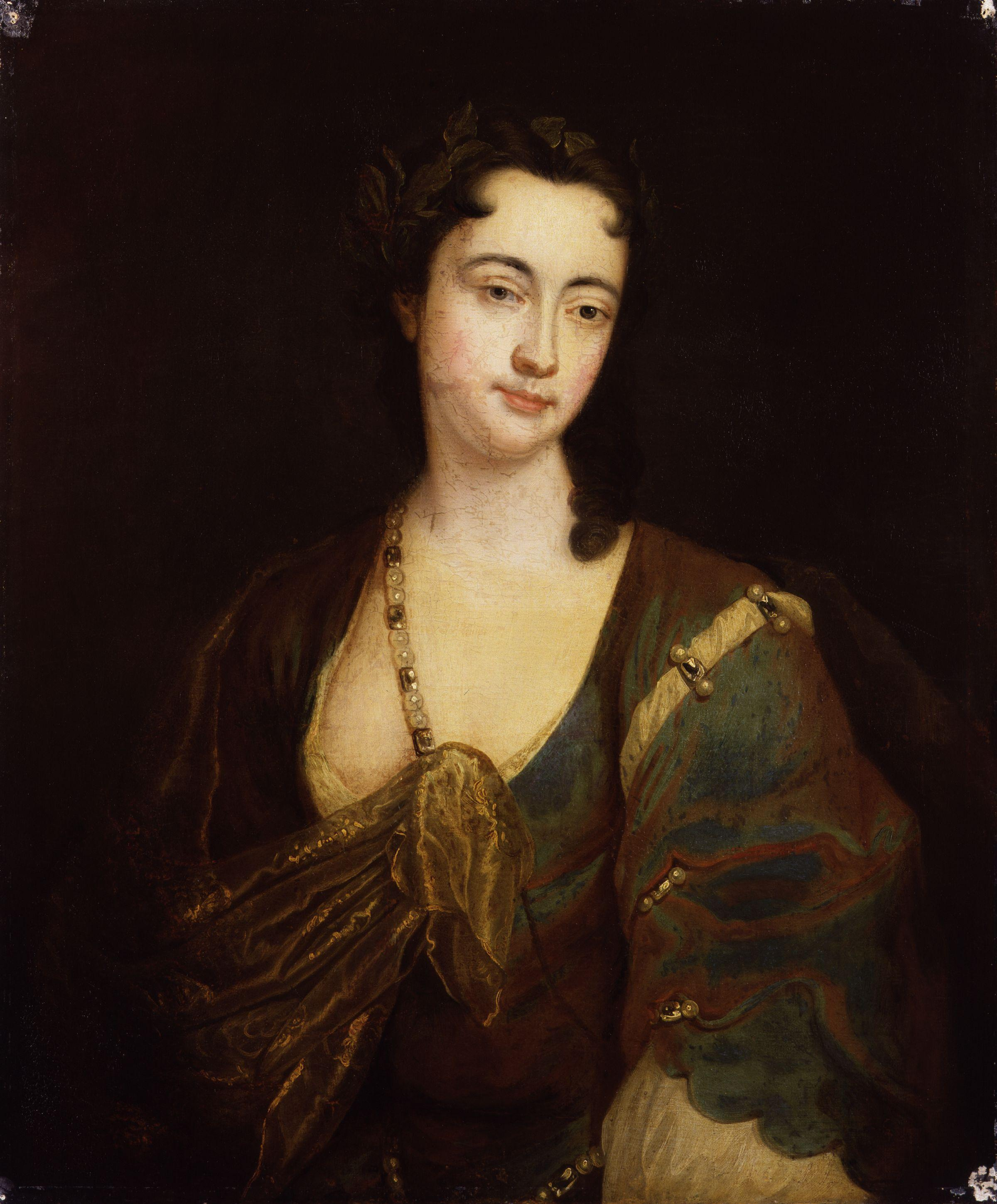 Anne Oldfield, by unknown artist. All images in this batch are listed as "unknown author" by the NPG, who is diligent in researching authors, and was donated to the NPG before 1939 according to their website.